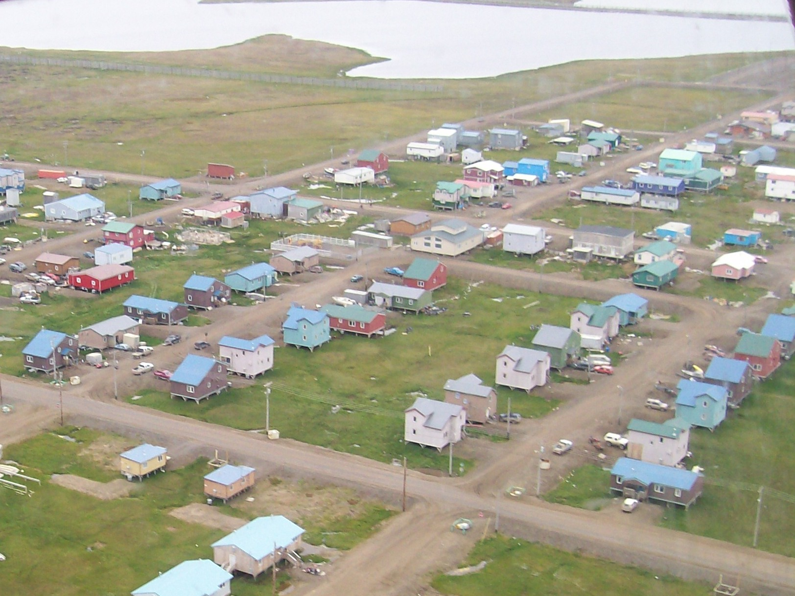 Barrow, Alaska from the air. Note the houses are mounted on stilts.